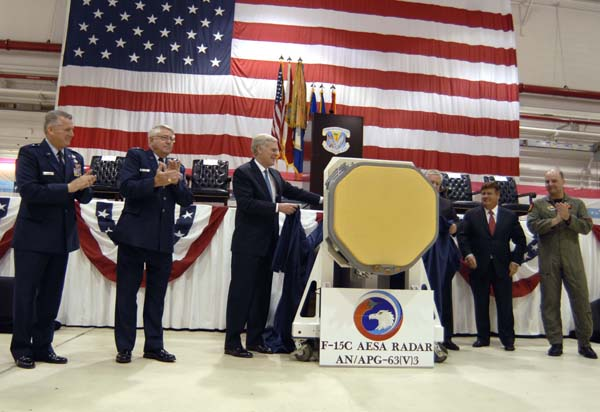 Congressman Ander Crenshaw (center) helps unveil the new APG-63(v)3 Active Electronically Scanned Array during a rollout ceremony at the 125th Fighter Wing in Jacksonville, Fla., April 12, 2010. Flanked by Air National Guard leaders - including the Adjutant General of Florida Maj. Gen. Douglas Burnett (second from left) - and representatives from Boeing and Raytheon, the congressman helped introduce the upgrade for the National Guard's F-15 Eagle fighter aircraft. Photo by Master Sgt. Thomas Kielbasa.